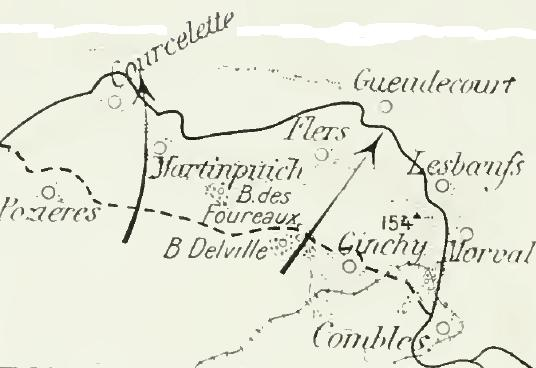 Map, Flers-Courcelette, 1916